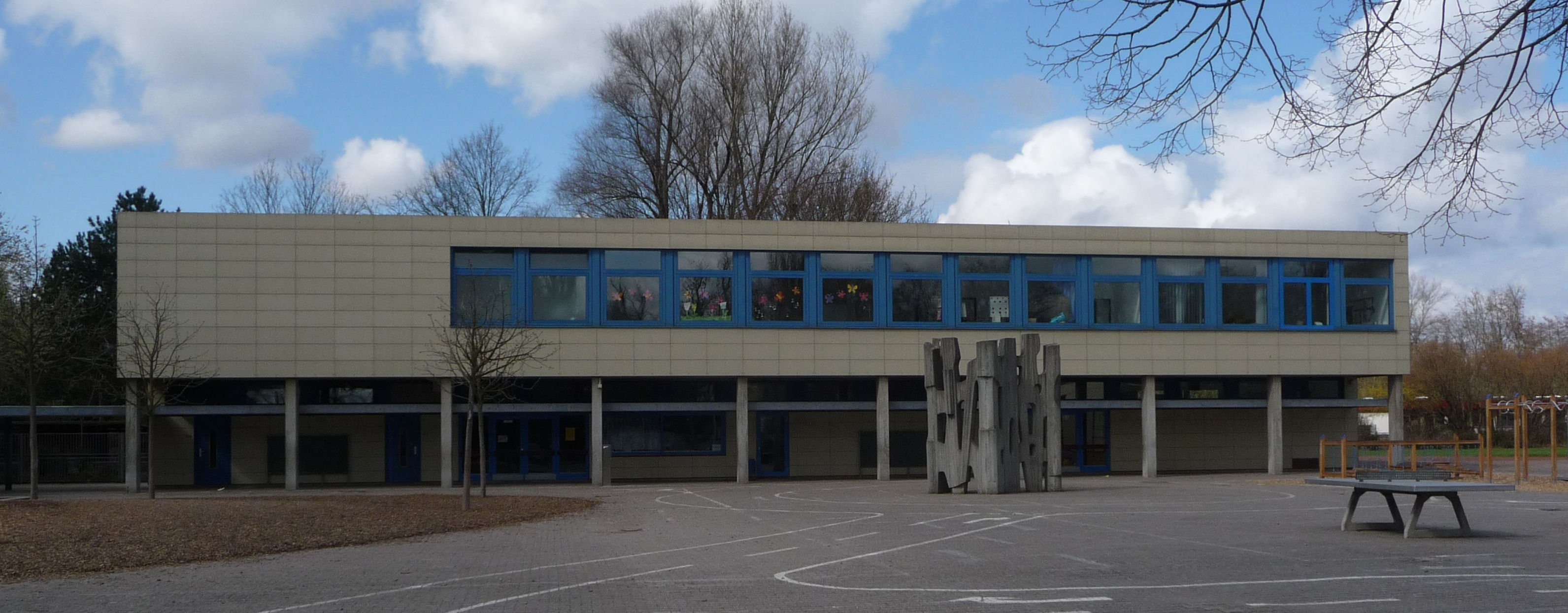 School in Ludwigshafen, Germany